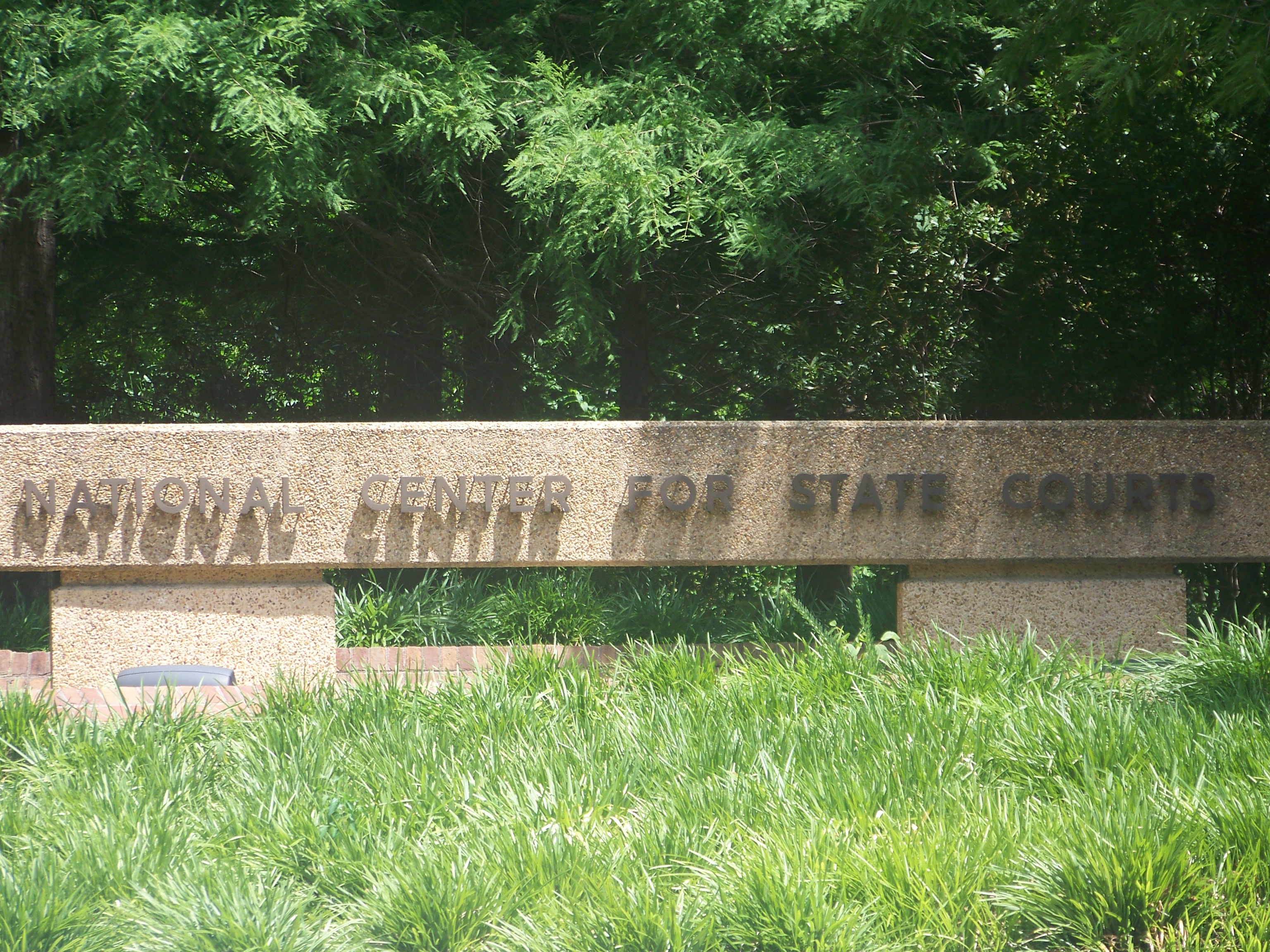 Sign for National Center for State Courts